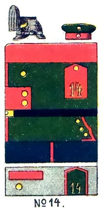 Uniform after 1890 of the Grand Ducal Mecklenburg Hunters Battalion No. 14.